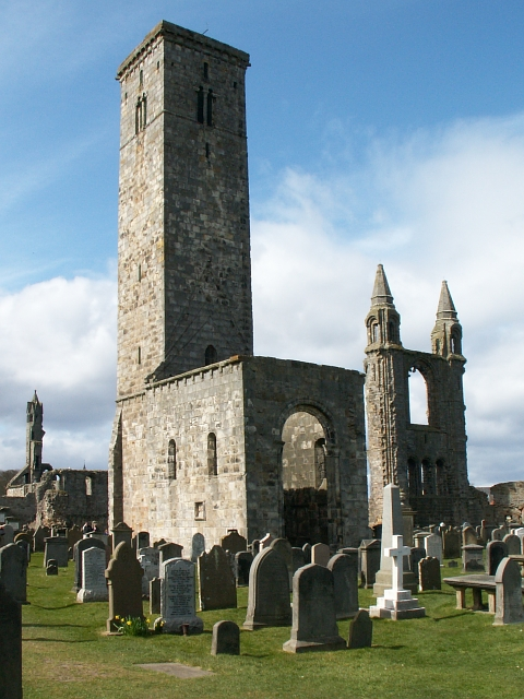 St Rule's Tower, St Andrews Situated in the grounds surrounding the ruined Cathedral. Dedicated to St Rule who it is said brought the bones of St Andrew to the area in or around the year 345. St Rule's Tower was built in the 11th century. It stands 35 mts high and is all that remains of St Regulus Church, an Augustinian building.